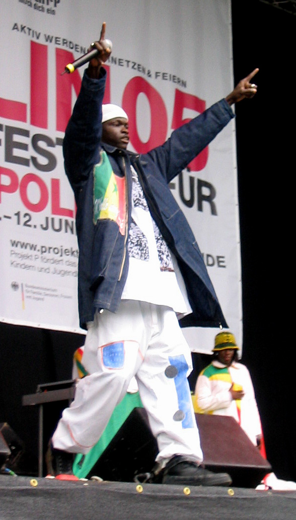 Retouched version of Image:Darra j berlin05 8.JPG